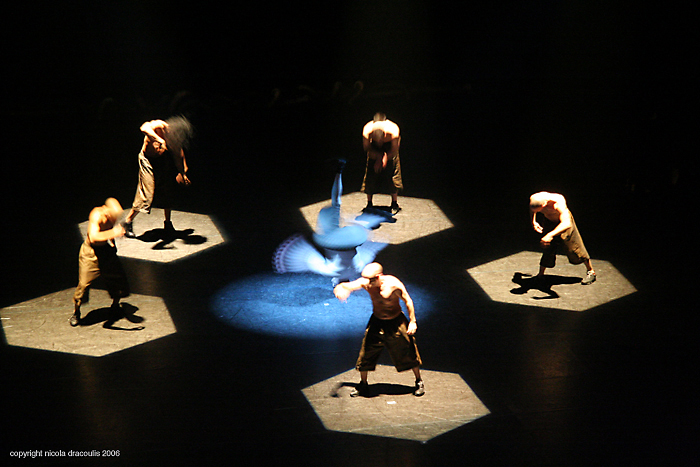 French hip-hop dance company Franck II Louise performing at Breakin' Convention 2006. Shows a b-boy doing a head spin in the middle of fellow company members.